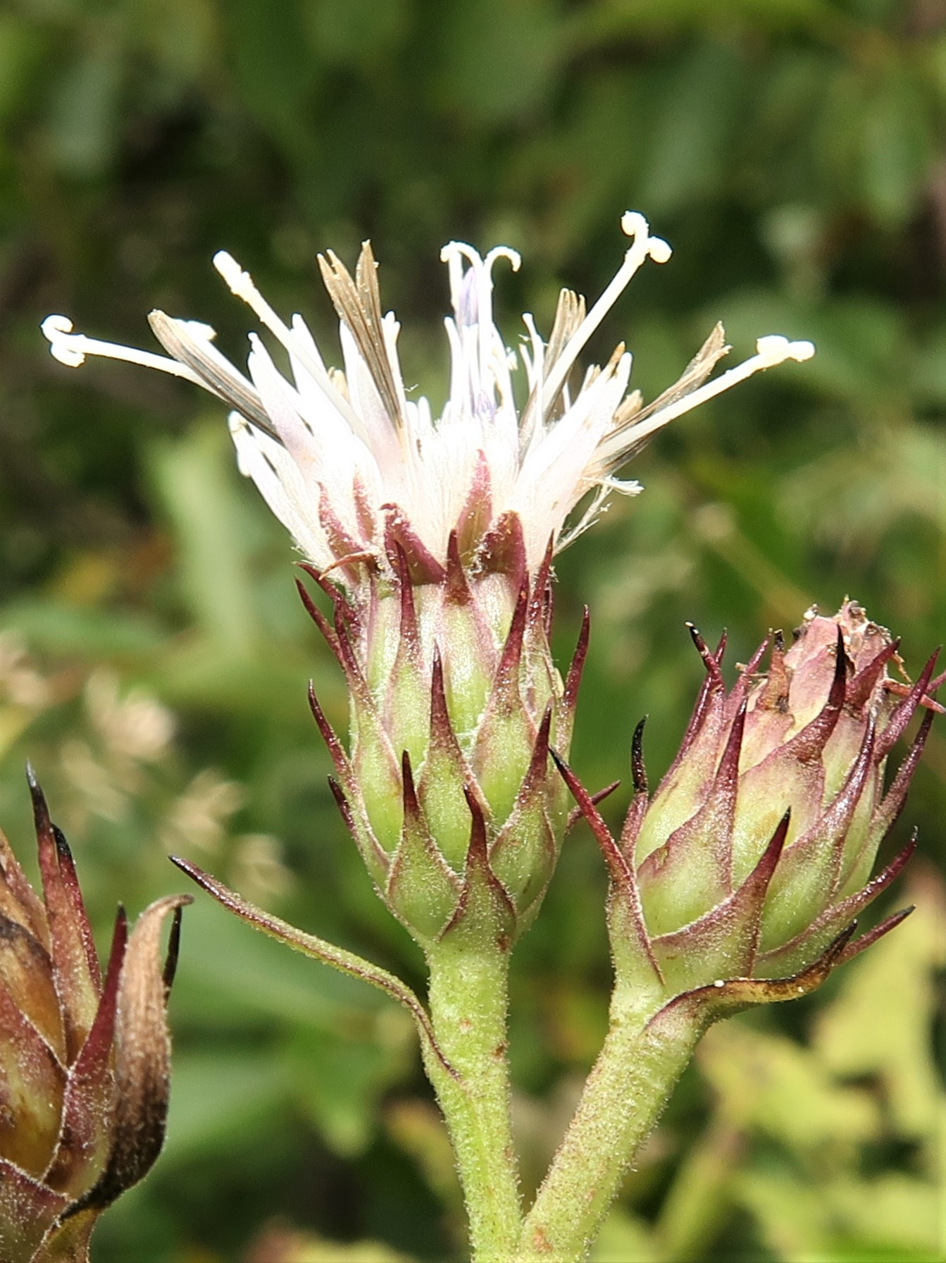 Saussurea × iwateyamensis, Mount Iwate-san, Iwate pref., Japan